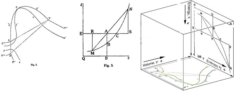 A joint diagram of figures one and two from Willard Gibbs 1873 graphical thermodynamics articles transposed by James Maxwell in 1874 onto a three dimensional surface and made into a plaster surface, often called Maxwell's thermodynamic surface